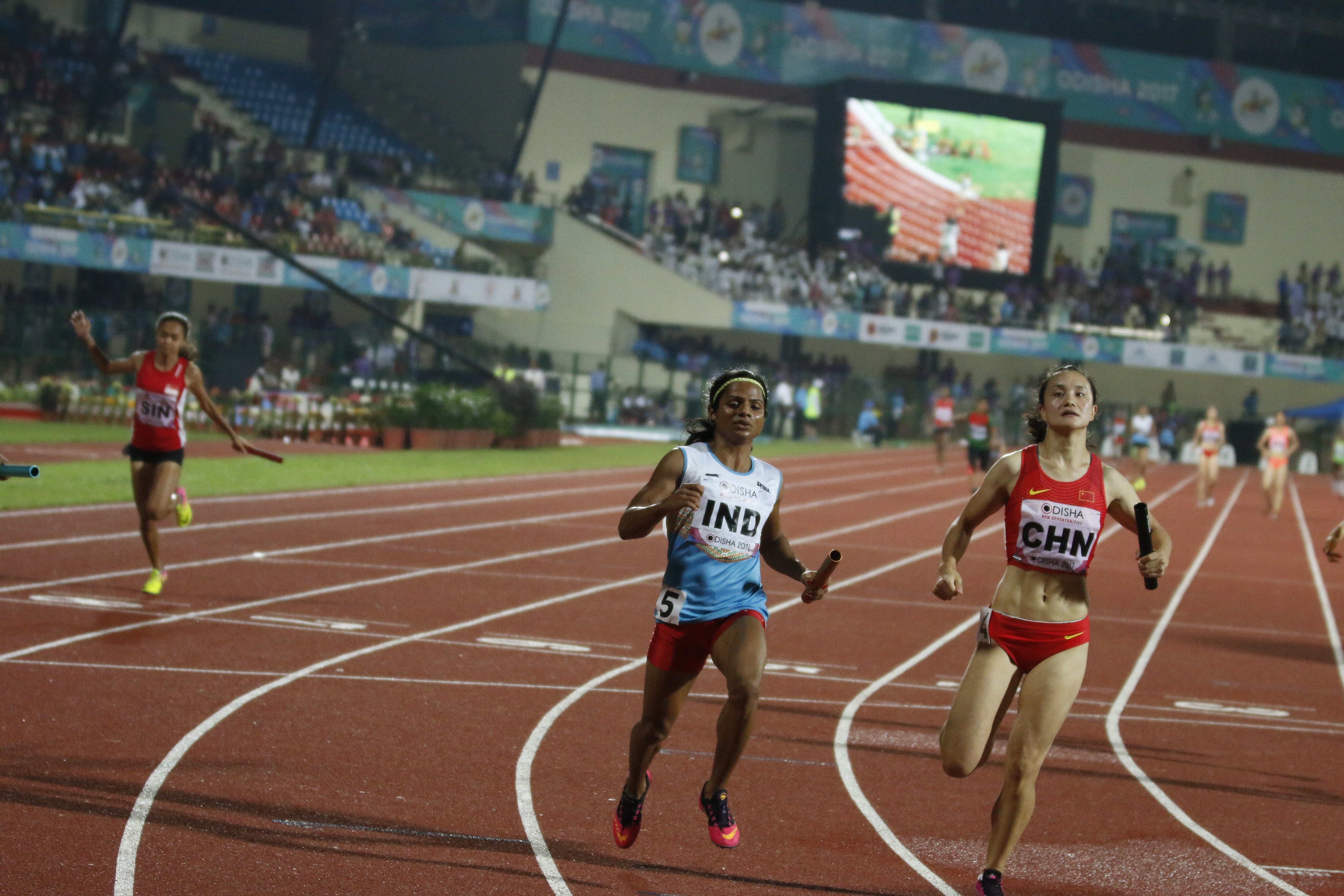 from the 22nd Asian Games in Odisha. 2017 Asian Athletics Championships. 6 to 9 July 2017 at the Kalinga Stadium in Bhubaneswar